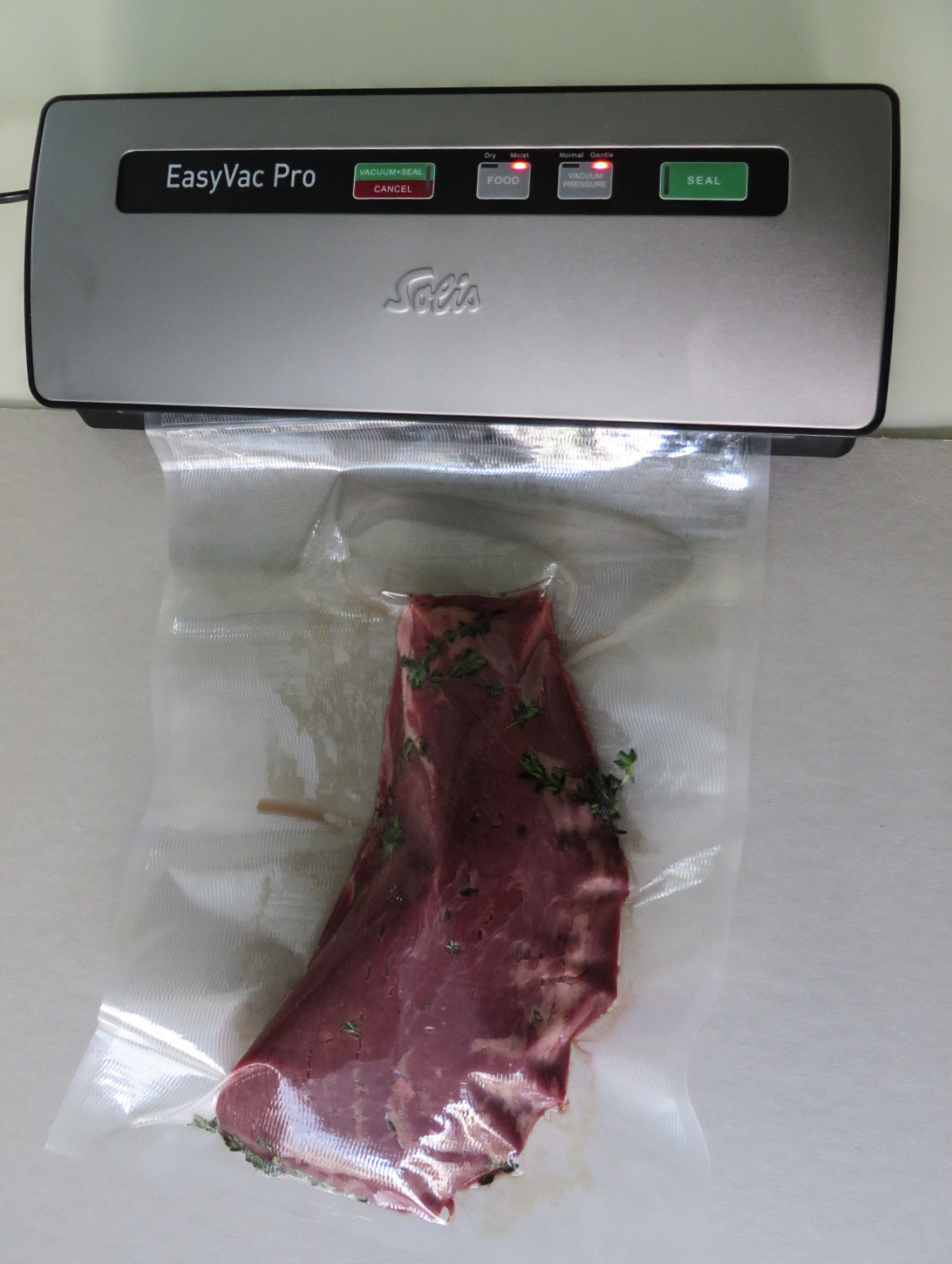 Vacuum packing and sealing device (closed), used for sous-vide cooking